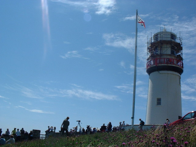 Galley Head Lighthouse. This photograph was taken in August 2004 during the annual whalewatch event organised on a number of headlands around Ireland by the Irish Whale and Dolphin Group.